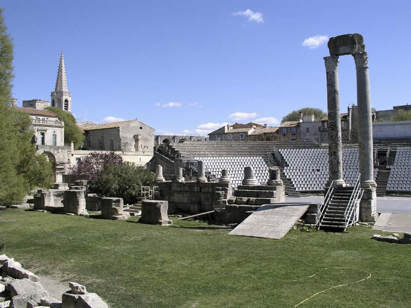 Roman theatre in Arles (France)